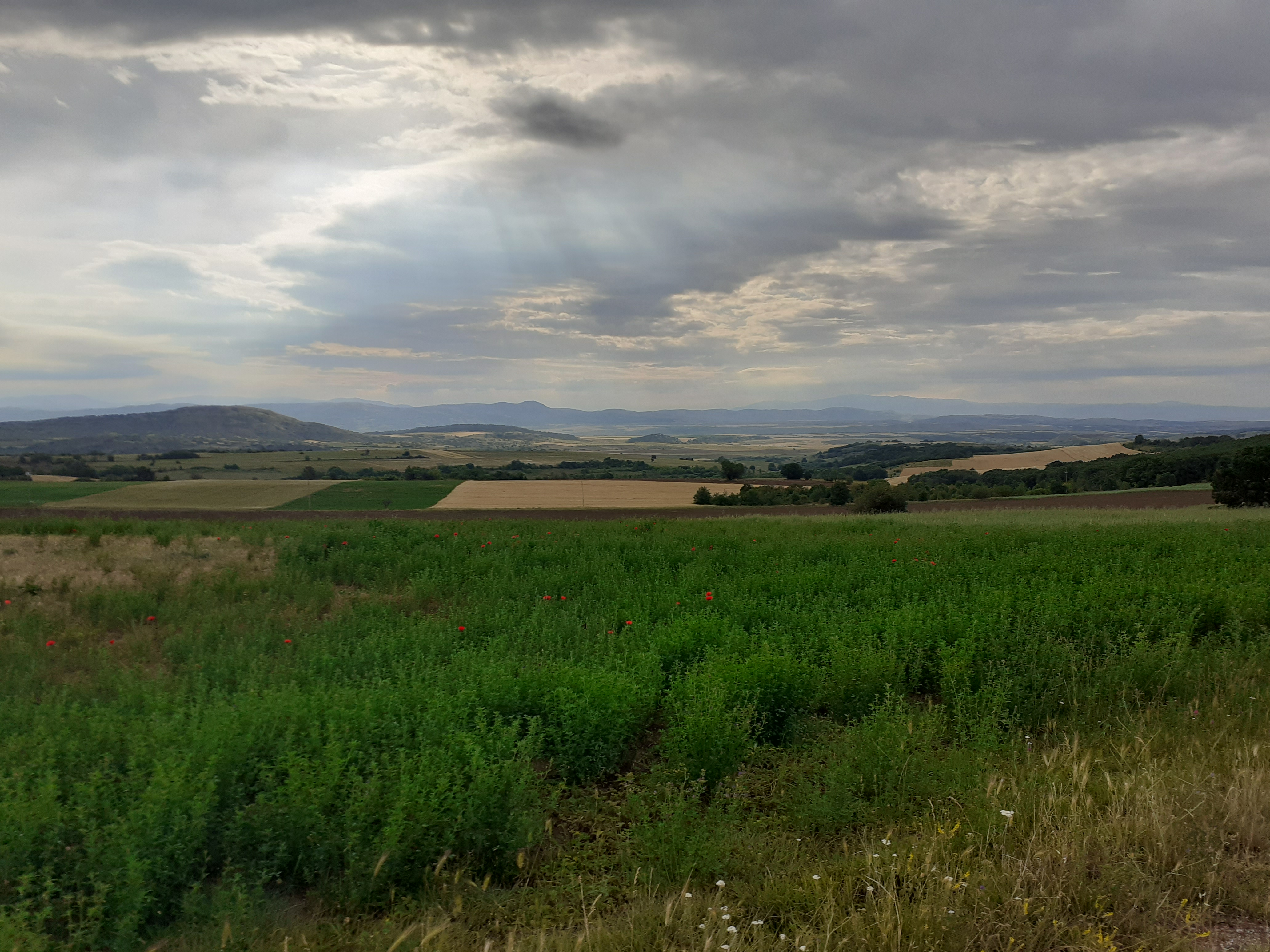 Ovce Pole fields, Macedonia